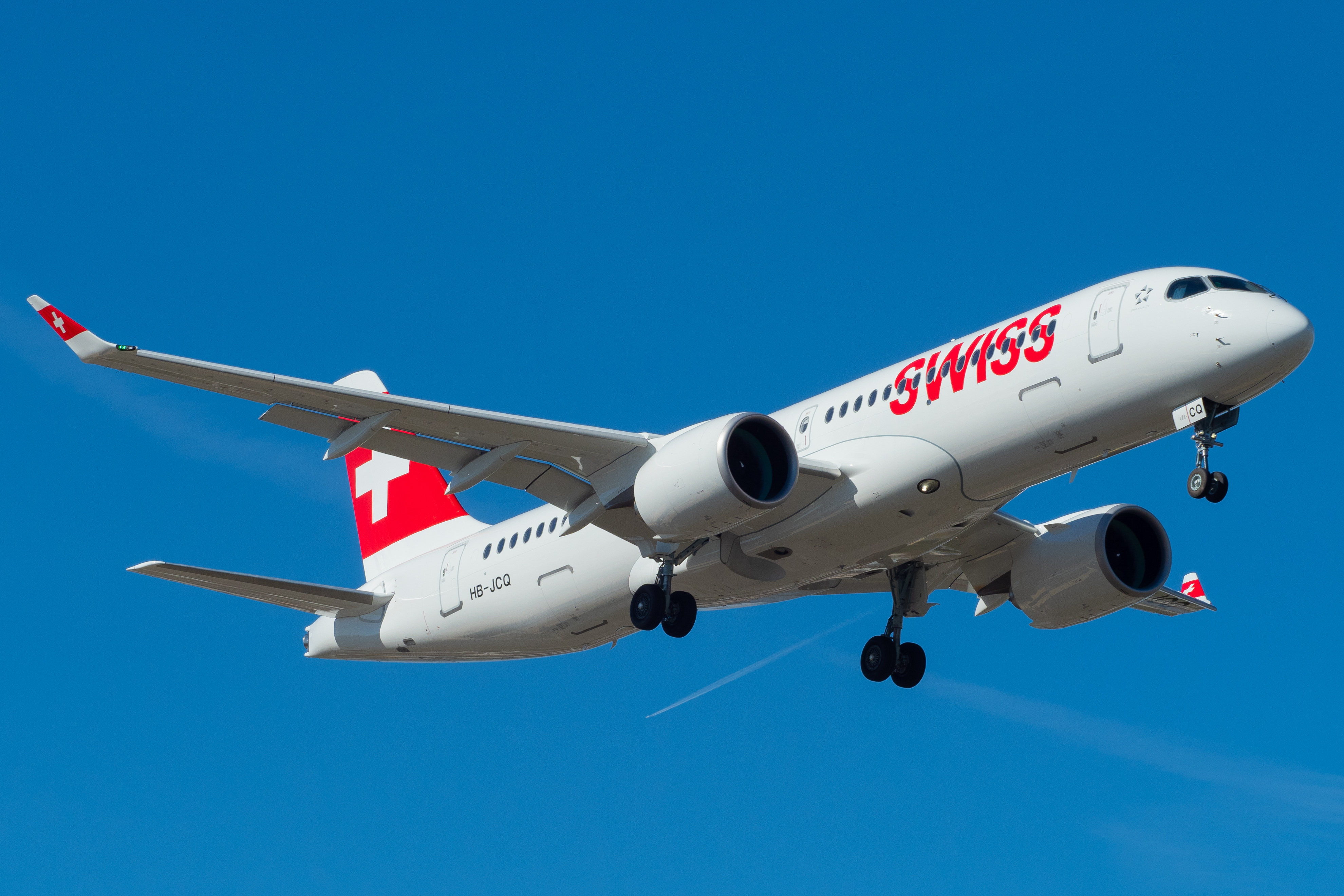 GVA Chemin des Papillons Geneva International Airport